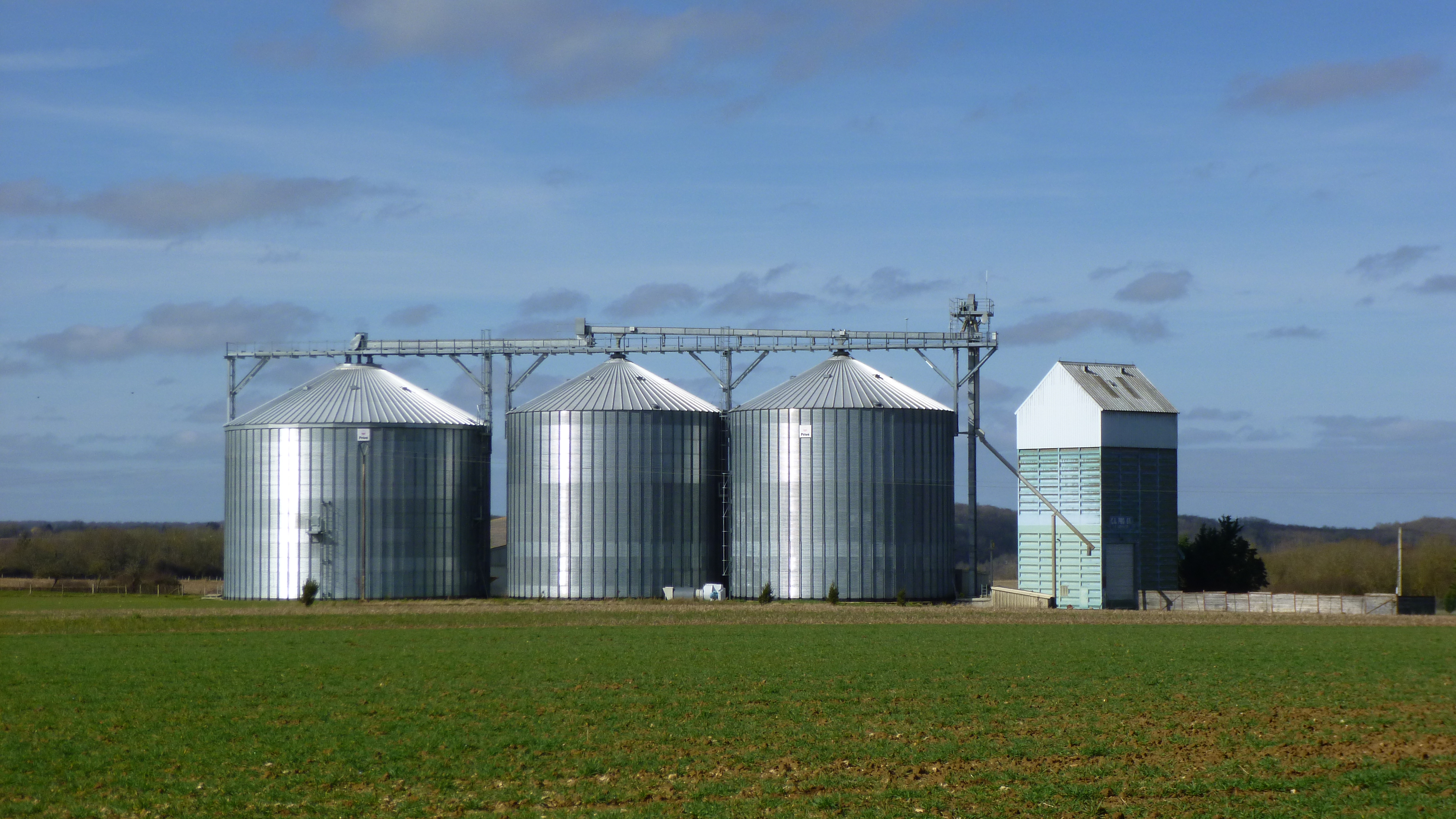 Saint-Martin-sur-Ouanne, Yonne, Burgundy, France. Silos belonging to the CAPROGA (local agricultural cooperative).